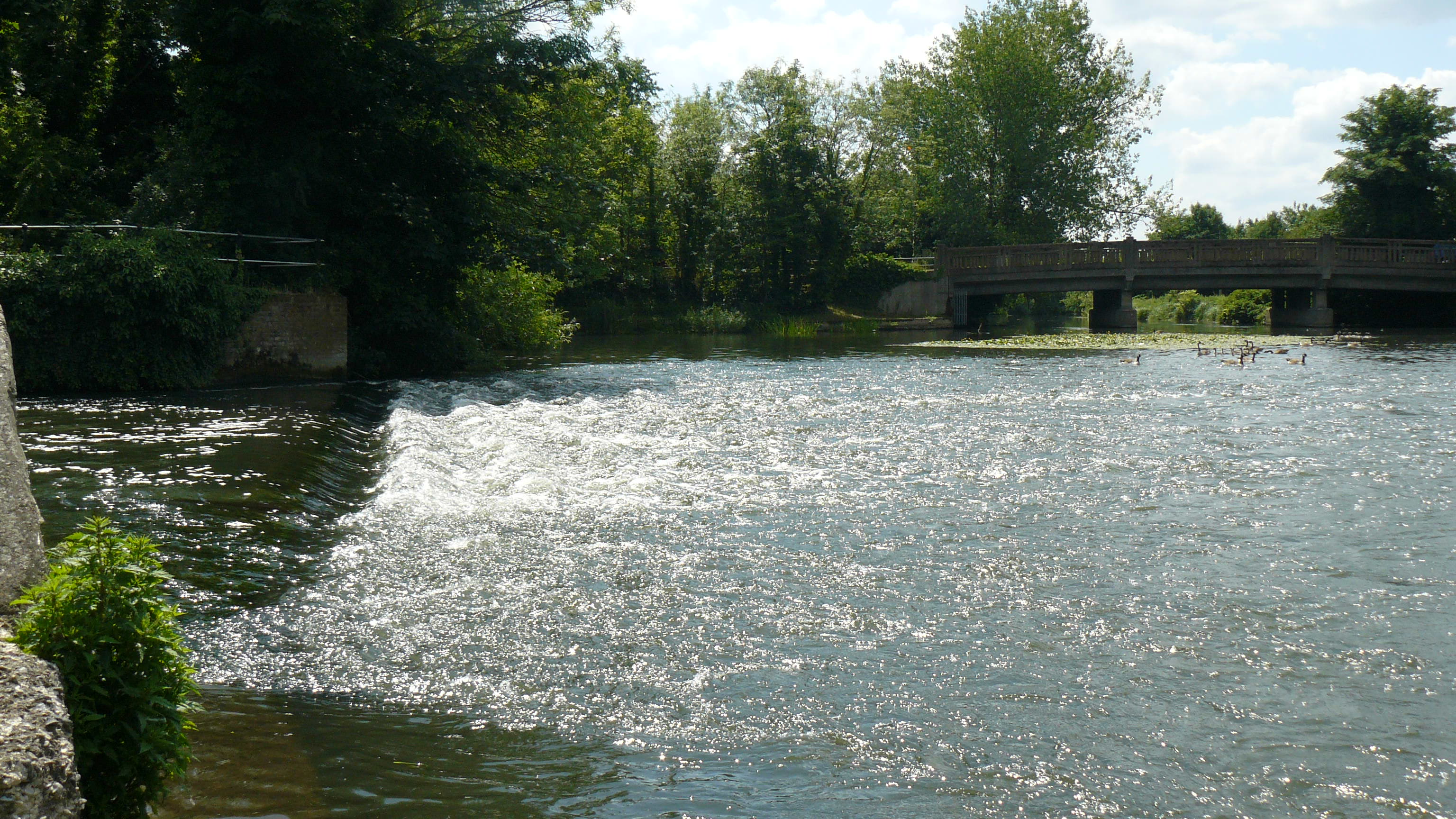 Jamsta 18:10, 27 September 2006 (UTC)